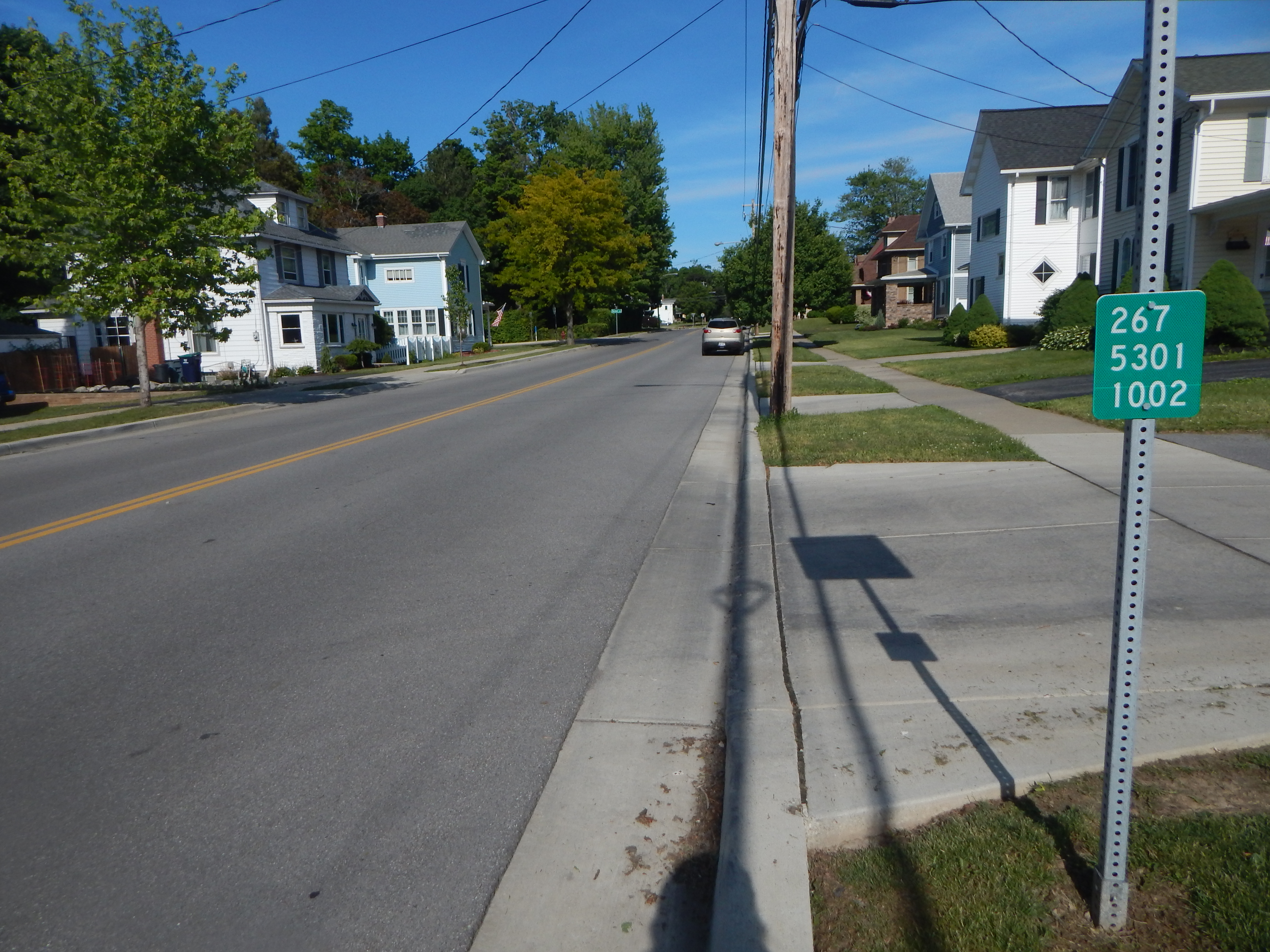 New York State Route 267 reference marker remaining in Akron, New York.